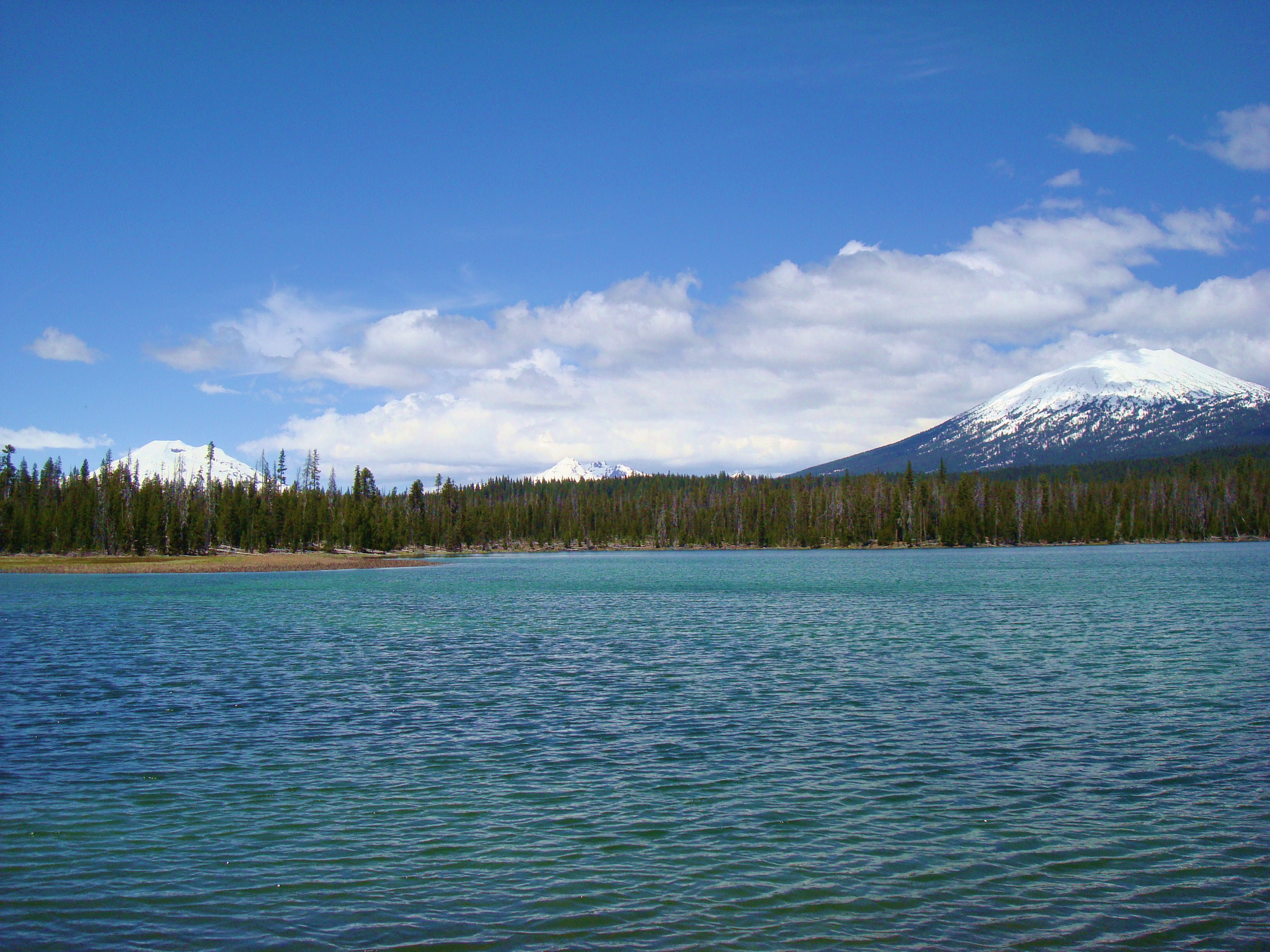 View northeast across Lava Lake in central Oregon's Deschutes National Forest of, from left, the volcanoes South Sister, Broken Top, and Mount Bachelor